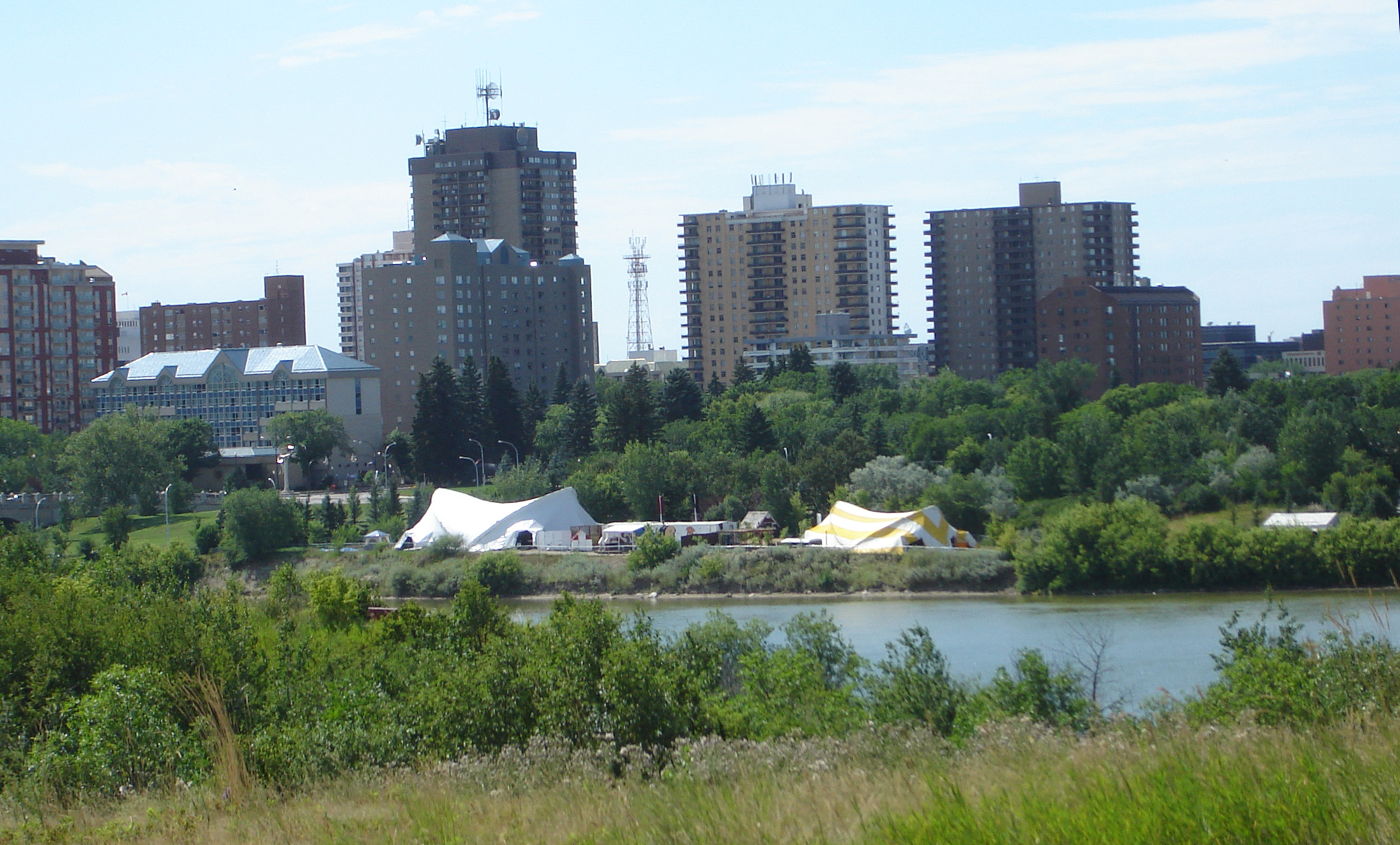 Shakespeare on the Saskatchewan festival tents south of the Mendel Art Gallery on the banks of the South Saskatchewan River. Photo taken from the U of S